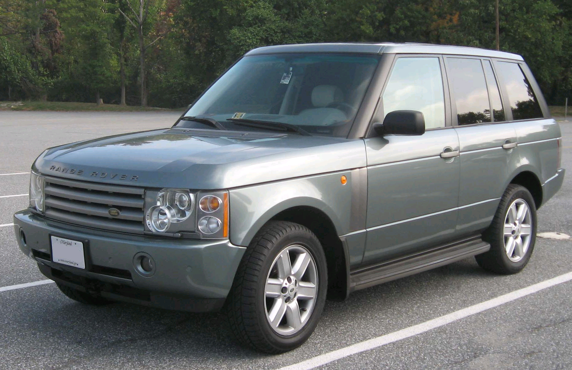 2002-2008 Range Rover photographed in Hyattsville, Maryland, USA.